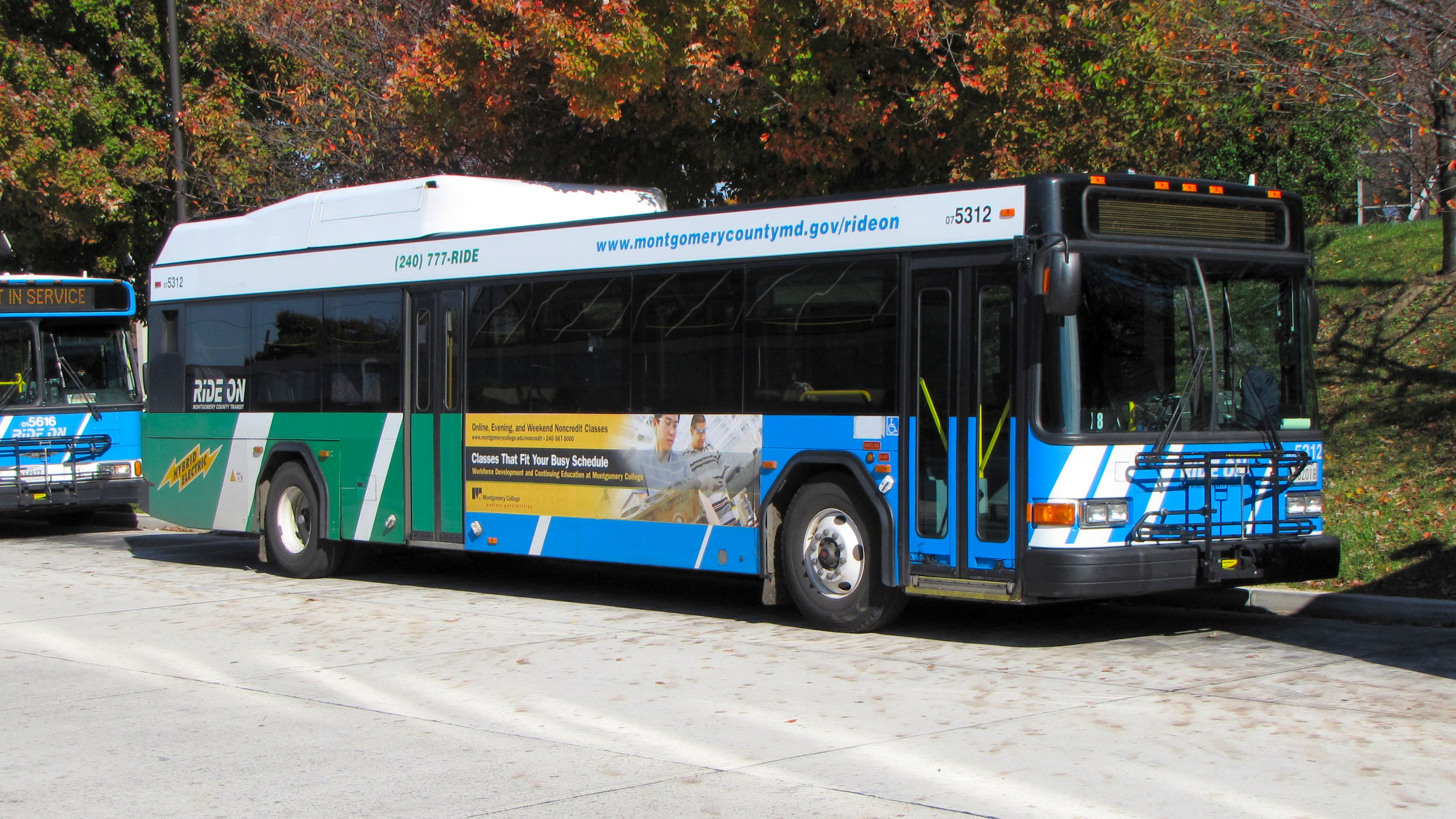 Ride On bus 5312, a Gillig Low Floor hybrid, at Glenmont station.